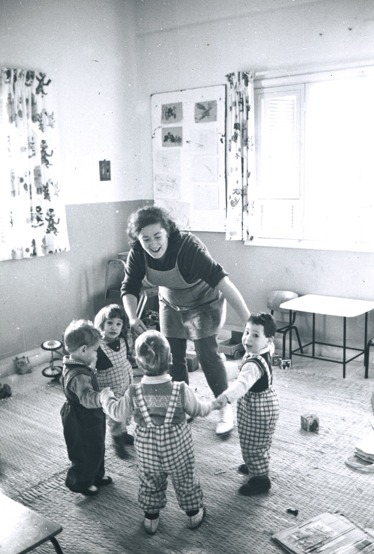 Education in the Golan Heights